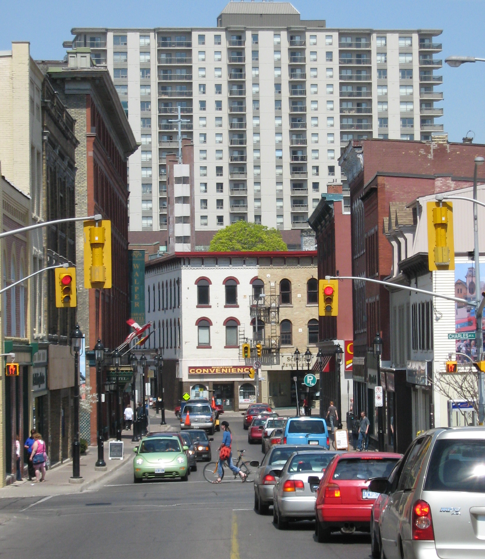 One of the oldest parts of Downtown Kitchener. The former American Hotel can be seen at the bend in Queen Street at King Street.